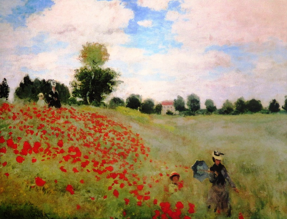 Claude Monet's impressionist painting of a poppy field completed in 1873.